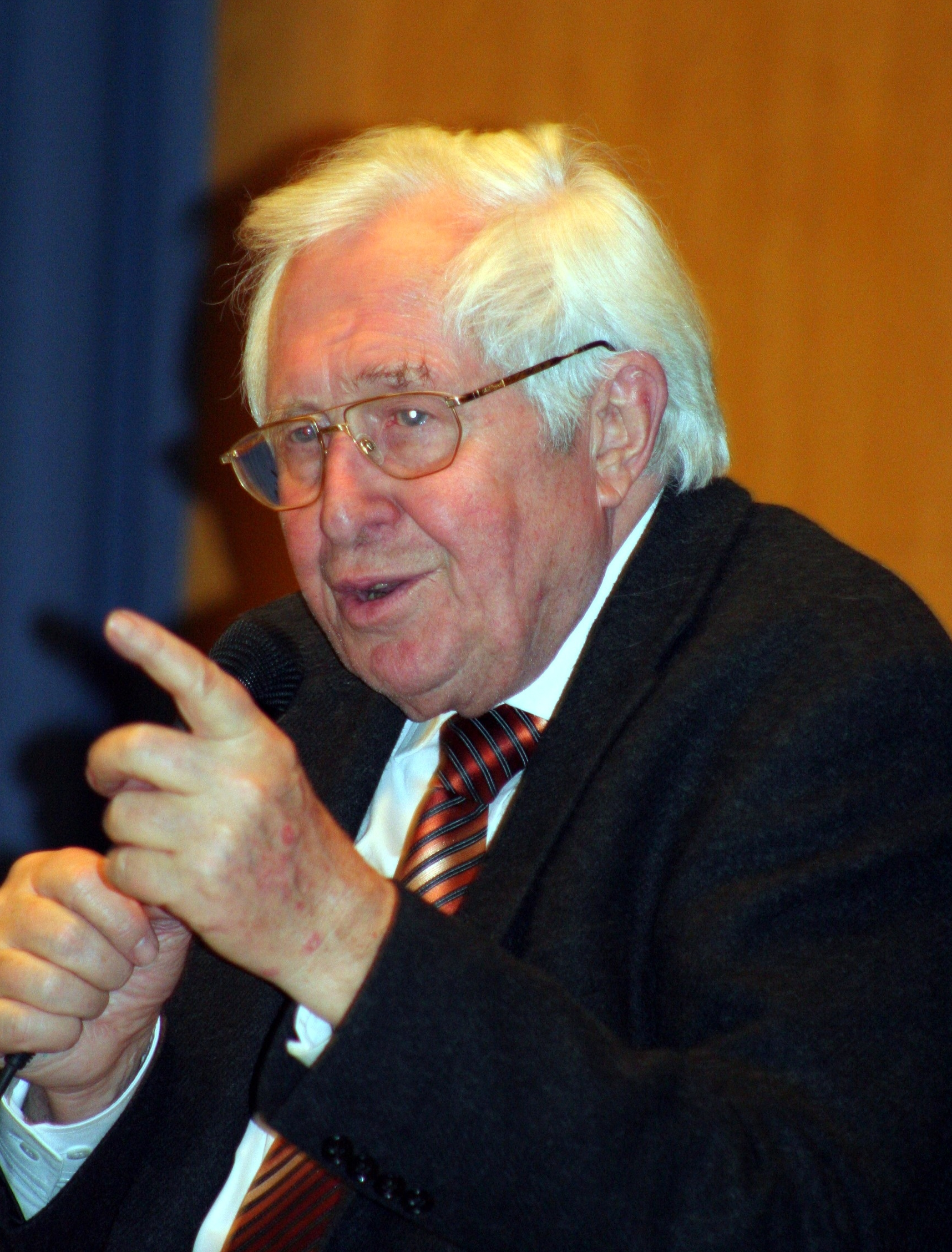 German politician Bernhard Vogel in Düsseldorf, October 2009